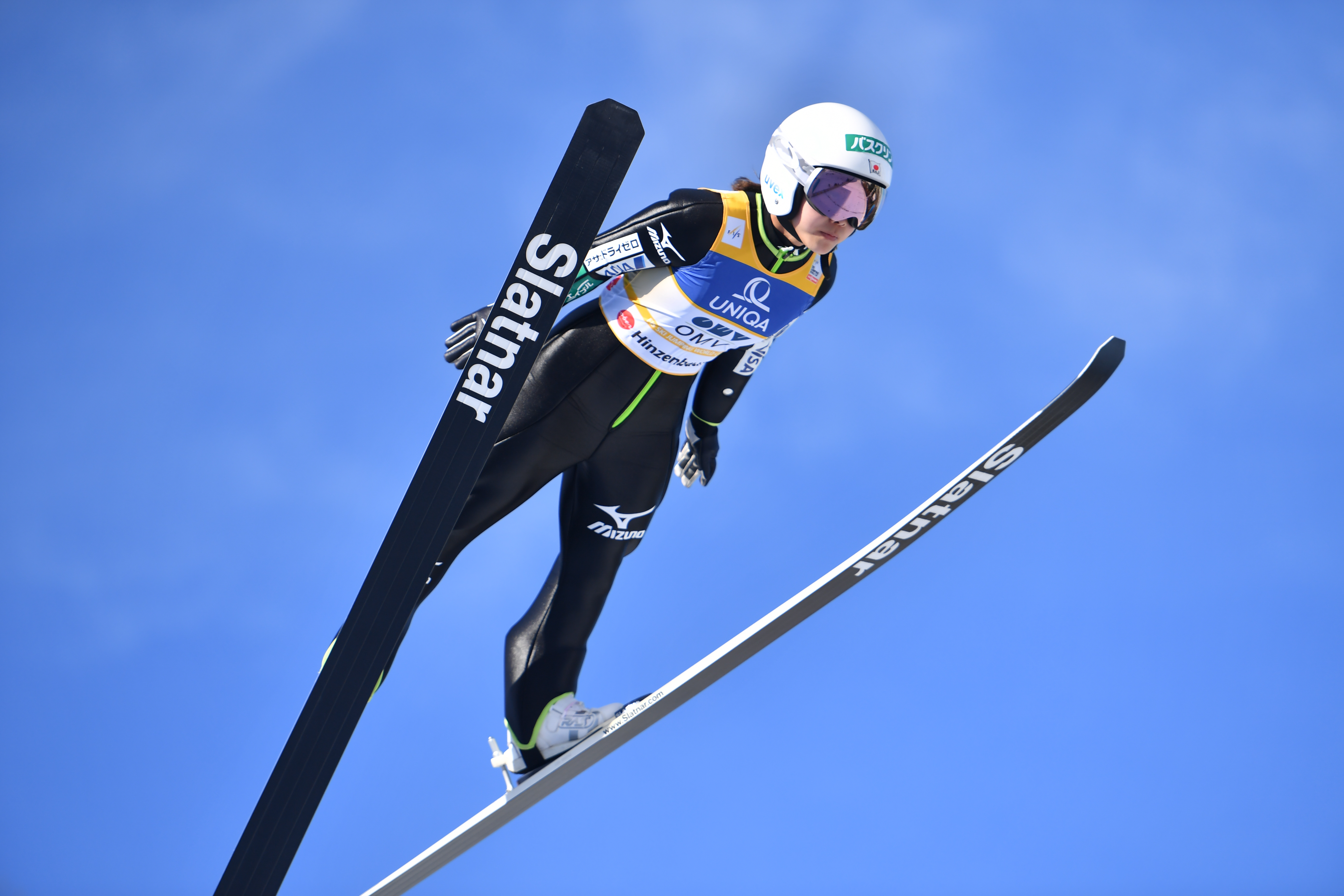 05/02/17, Hinzenbach, Austria, FIS Ski Jumping World Cup Ladies 2017